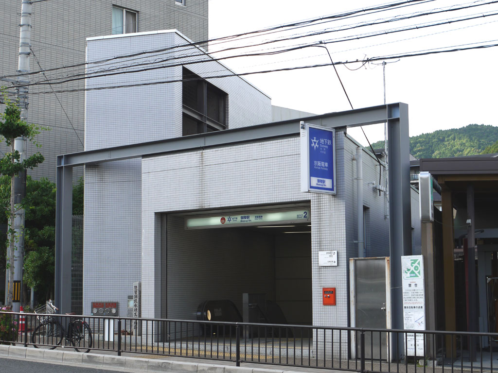 Kyoto Subway Tōzai Line Misasagi Station Entrance No2